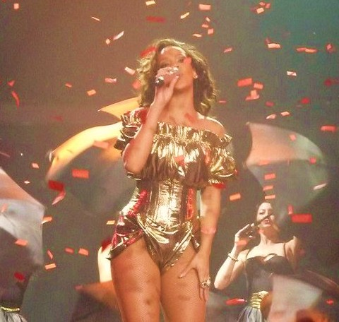 Rihanna performing Umbrella at the Liverpool Echo Arena on her Loud Tour on the 7th of October 2011